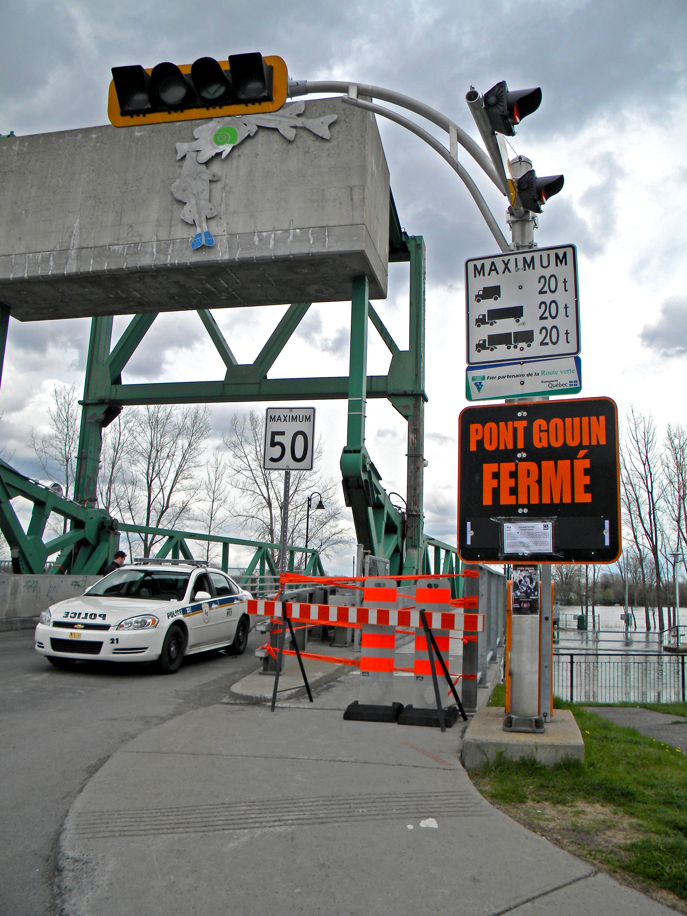 Gouin bridge is closed in Saint-Jean-sur-Richelieu during the 2011 flood in Montérégie (Québec, Canada).